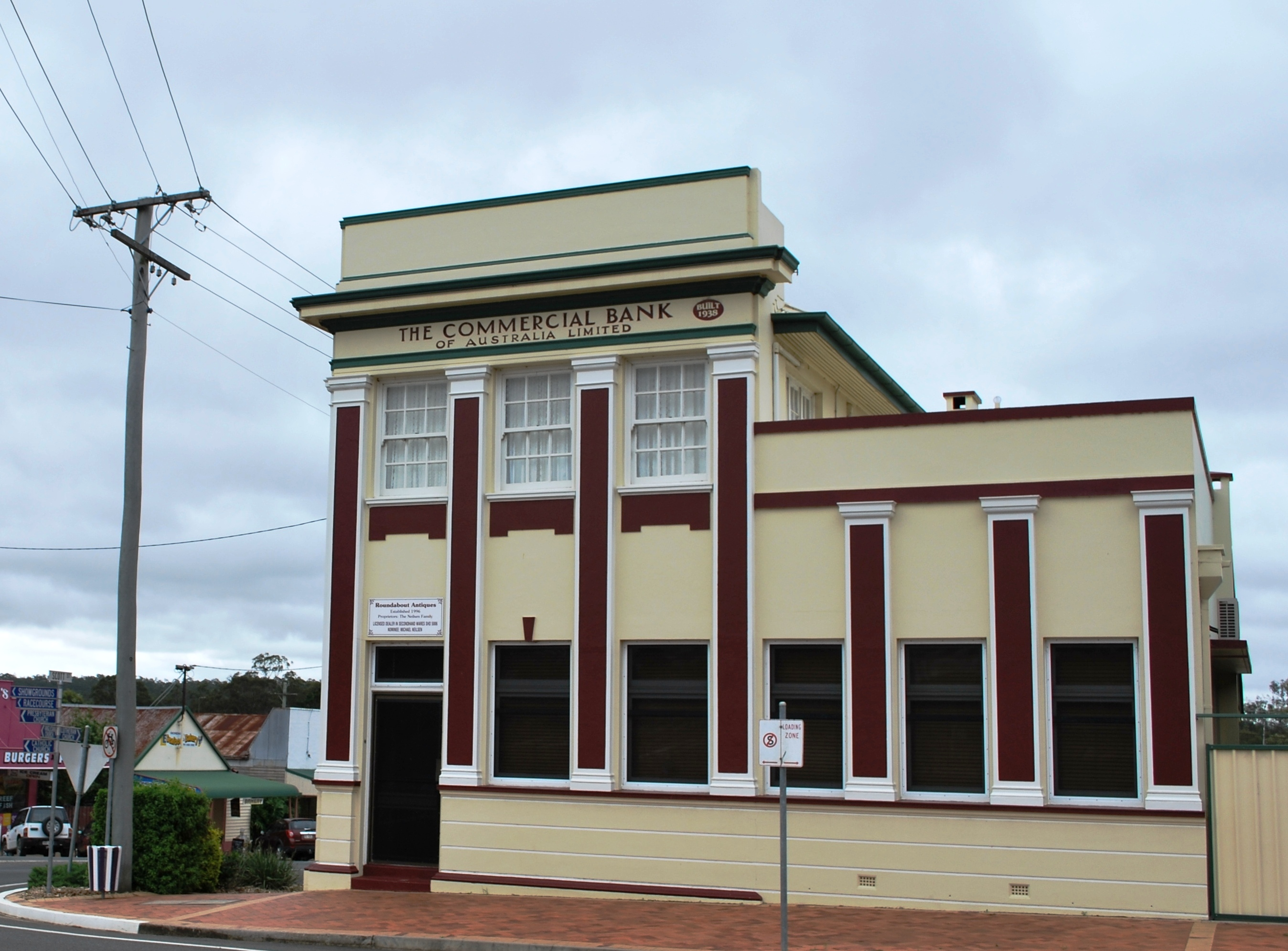 Former Commercial Bank of Australia, now an antique shop